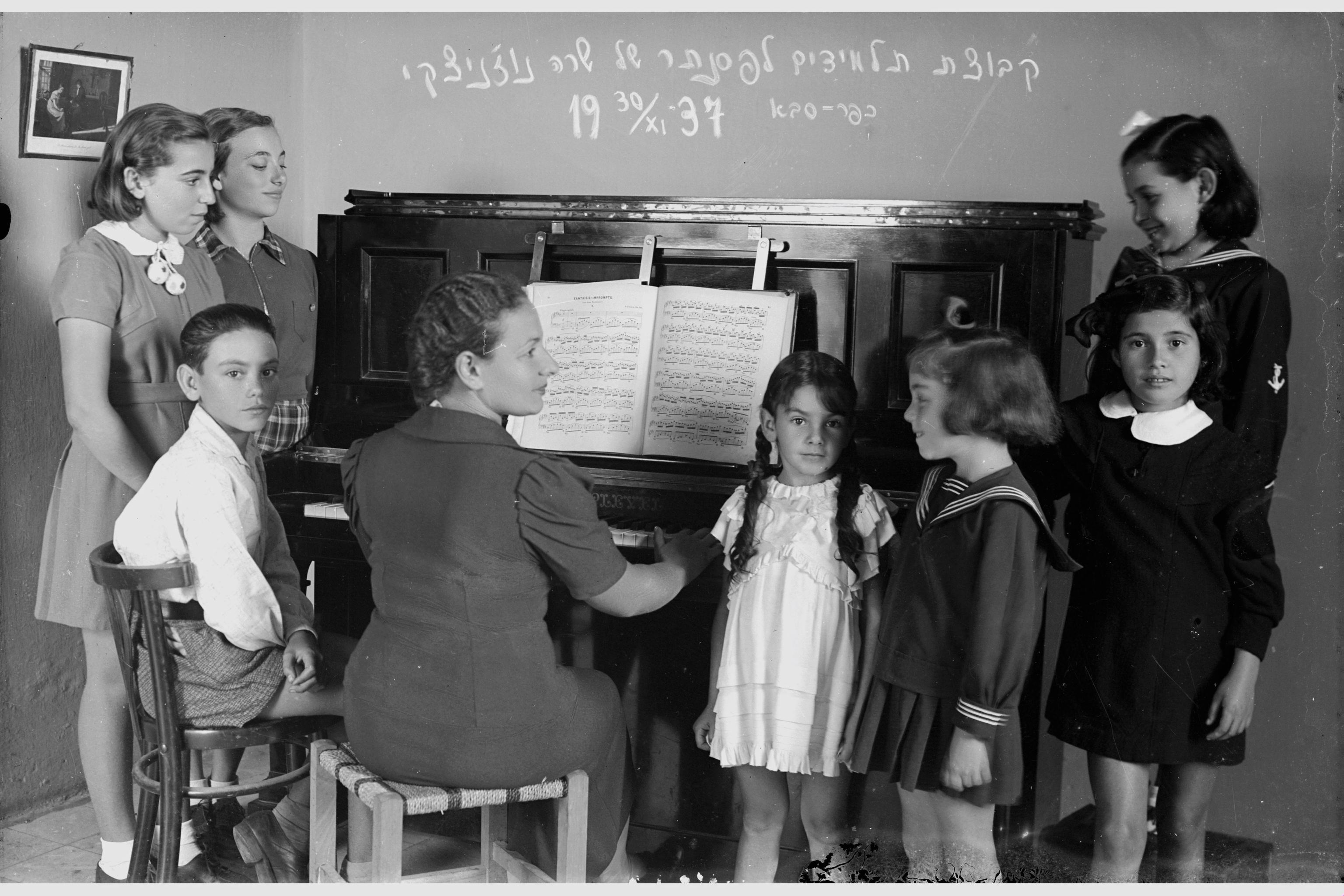 Piano Lesson in Kfar saba, Art of Israel